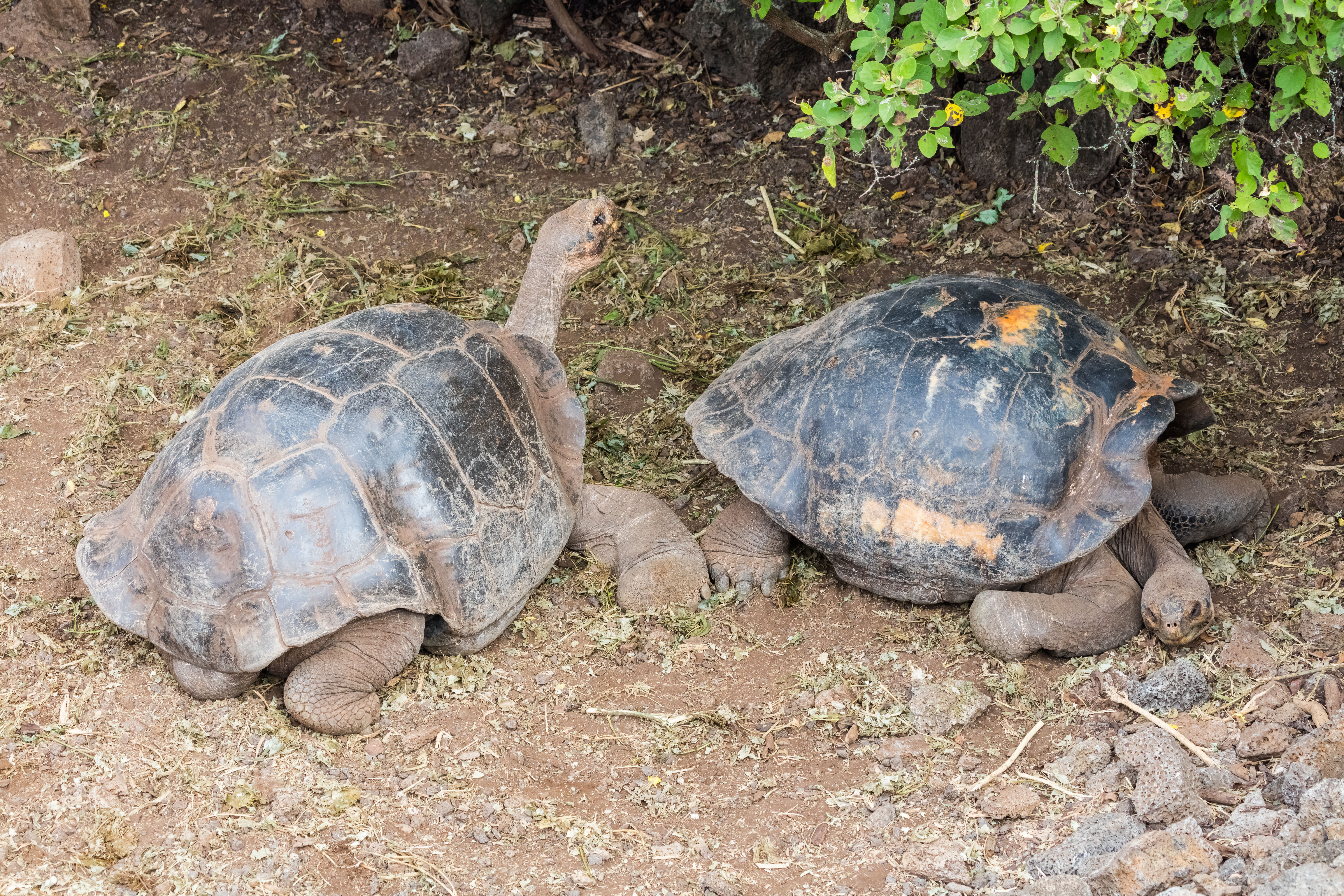 San Cristobal Island Galapagos tortoise (Chelonoidis chathamensis), Santa Cruz Island, Galapagos Islands, Ecuador